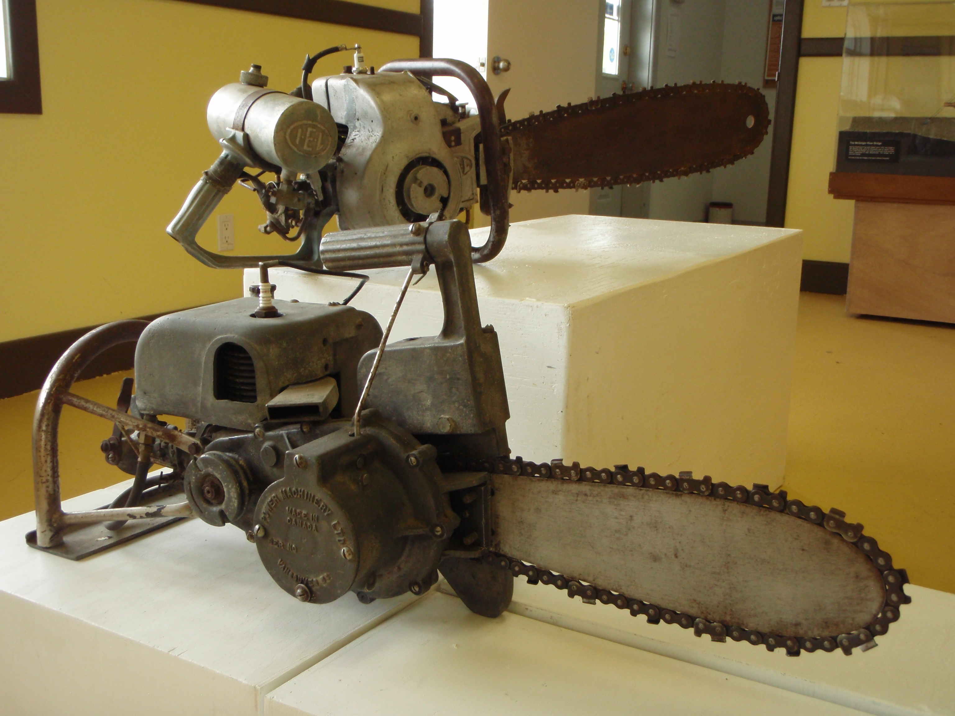 Two old chainsaws (the on in the background from IEL and the other from Power Machinery Ltd.)